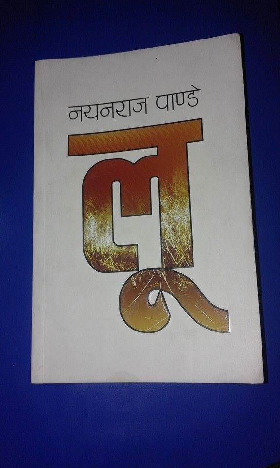 लू नेपाली उपन्यास